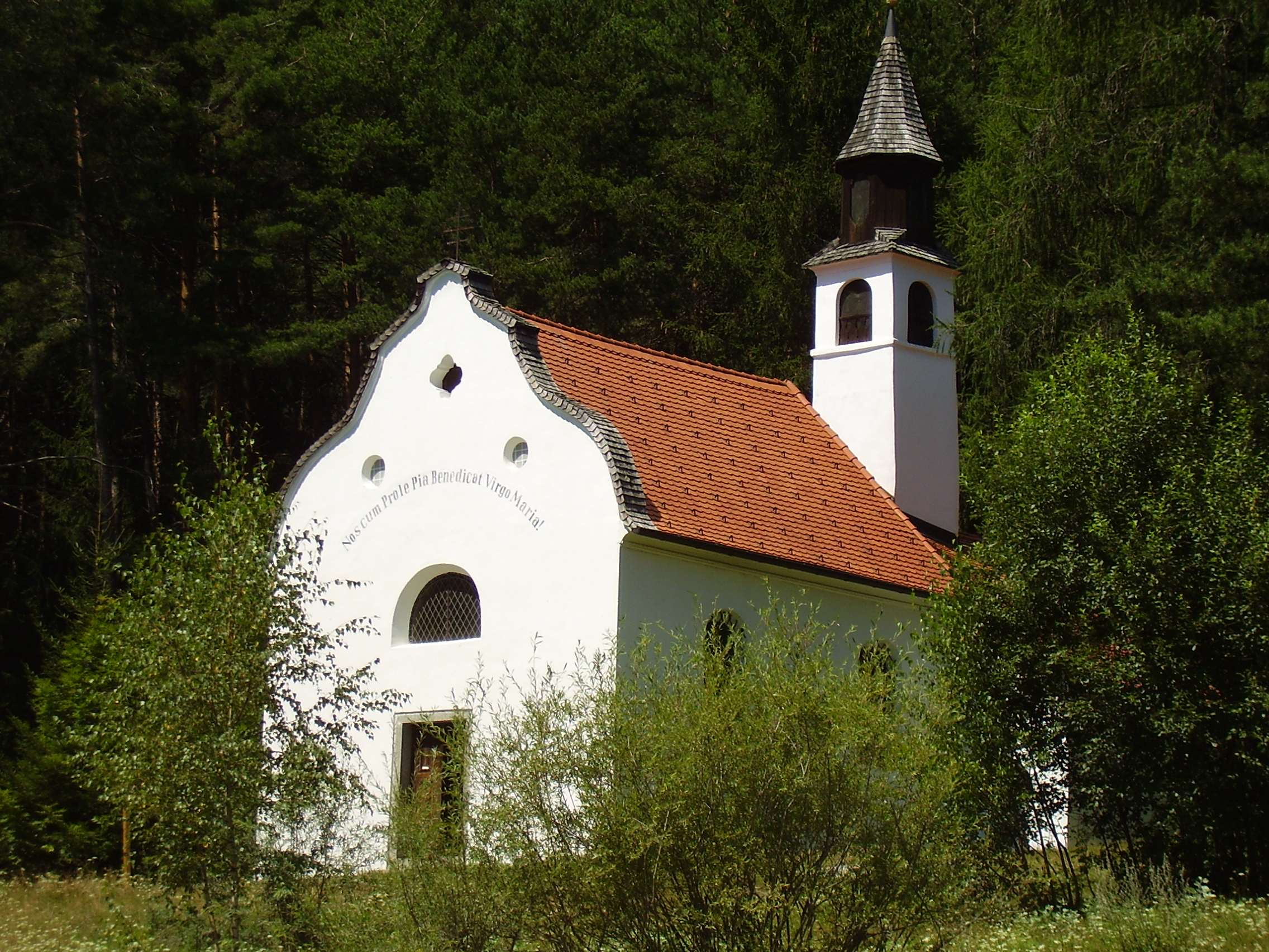 The Chapel of "Maria Hilf" (Mary Help of Christians) in St. Georgen (Bruneck, South-Tyrol, Italy)